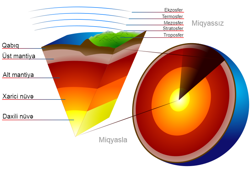 self-made, based on the public domain image File:Earth-crust-cutaway-english.png by Jeremy Kemp, translated to Azerbaijani language by Namikilisu